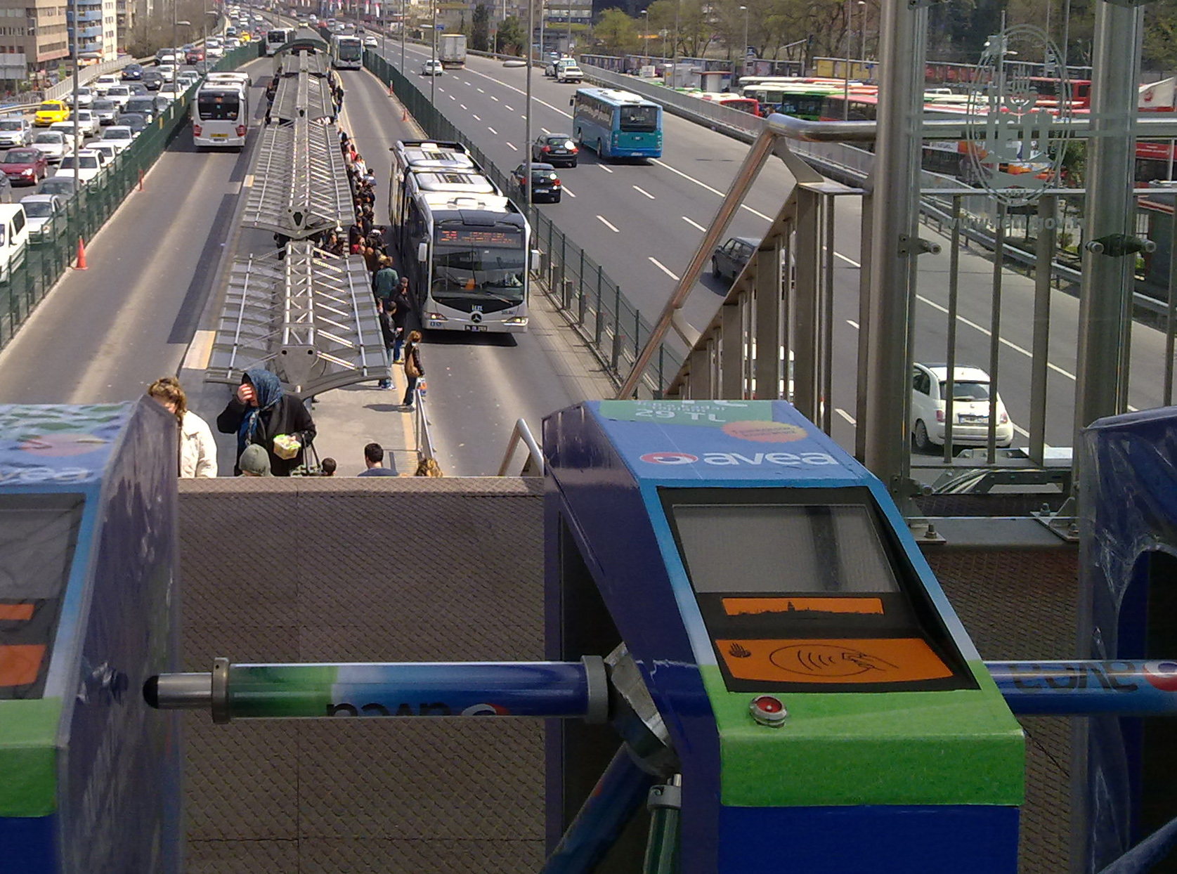 Metrobus (İstanbul) Mecidiyeköy station